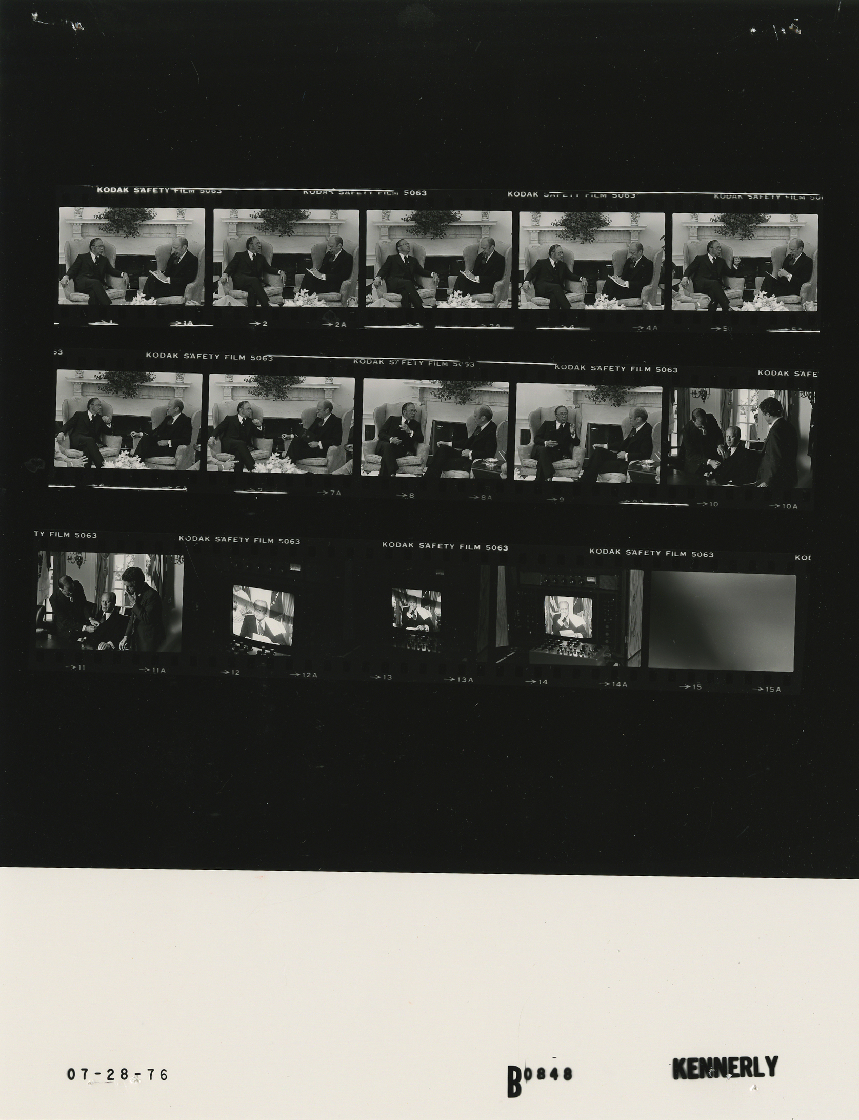 The photo contact sheet, identified as B0848 by the White House Photographic Office (WHPO), is housed at the Gerald R. Ford Presidential Library, a branch of the National Archives and Records Administration (NARA). This file is a 200 dpi photo contact sheet having images from roll of film B0848 of the August 9, 1974 - January 20, 1977 Gerald R. Ford White House Photographic Office Series A0001-A9999 and B0001-B2886 photographs. The date on the photo contact sheet is the date the roll of film was processed, not necessarily the date the photographs were taken. See table below for additional details.